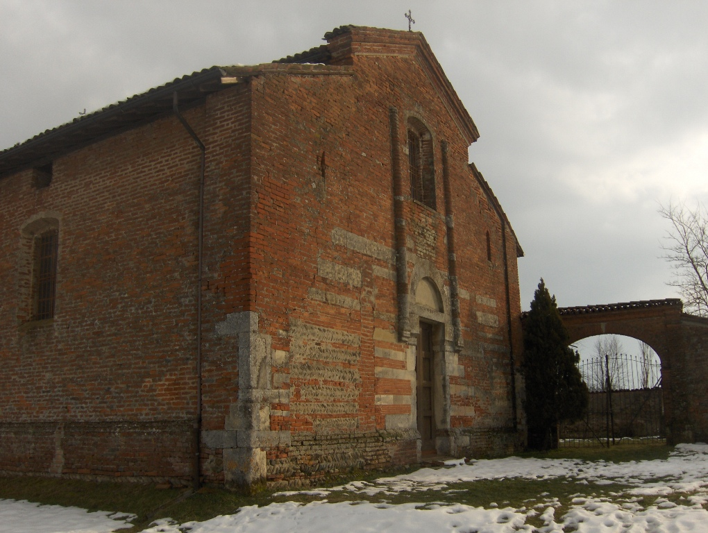 romanesque church